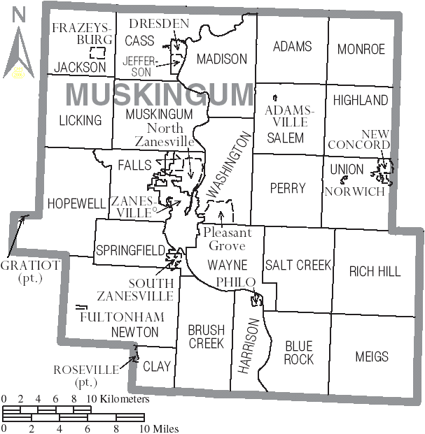 Map of Muskingum County, Ohio, United States with township and municipal boundaries